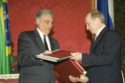 THE GRAND KREMLIN PALACE, MOSCOW. President Putin with President Fernando Henrique Cardoso of Brazil during a document-signing ceremony.